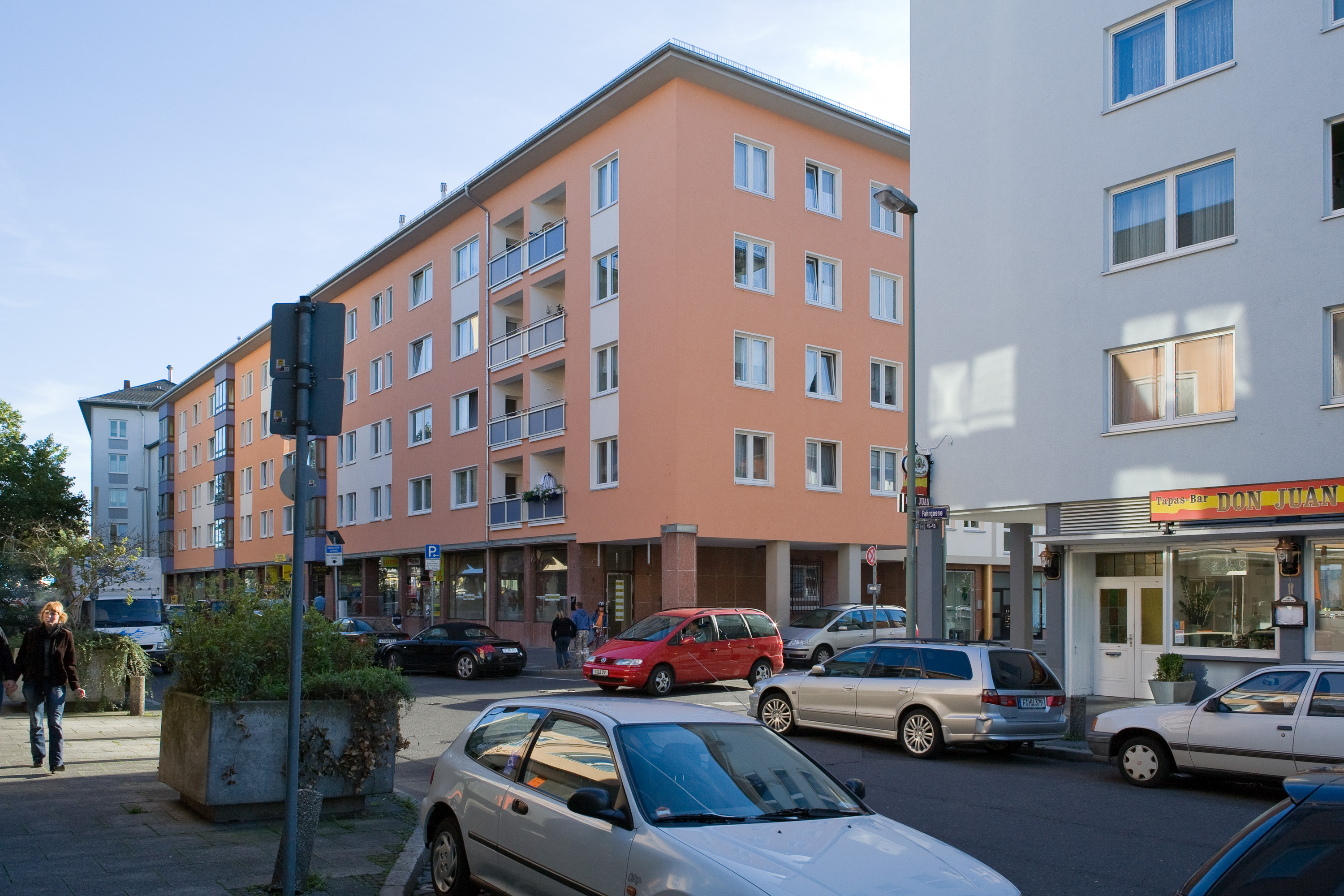 Frankfurt on the Main: Modern building on the parcel of the former house Fuersteneck at the crossing of Weckmarkt (Roll Market) / Fahrgasse (Drive Lane) as seen from the Fahrgasse to the south-east